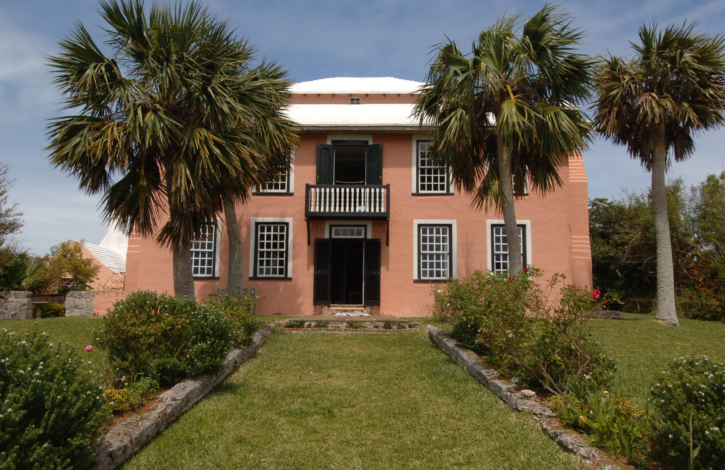 1710 GEORGIAN HOME; FLAGSHIP OF THE BERMUDA NATIONAL TRUST